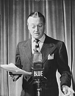 Edmund Lowe, American actor, standing at radio microphone (labeled for (NBC) Blue Network), holding script, 1942. Original caption: "Edmund Lowe, screen veteran, takes a major role on the War Production Board (WPB)'s radio program, Three Thirds of the Nation, presented Wednesday, May 27."